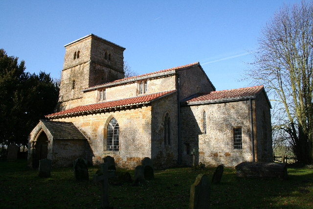 St Peter's parish church, Kingerby, Lincolnshire, seen from the southeast